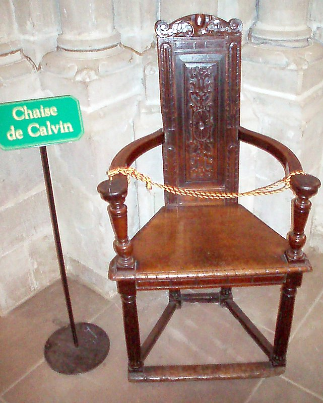 A wooden chair in the St. Pierre Cathedral used by John Calvin.